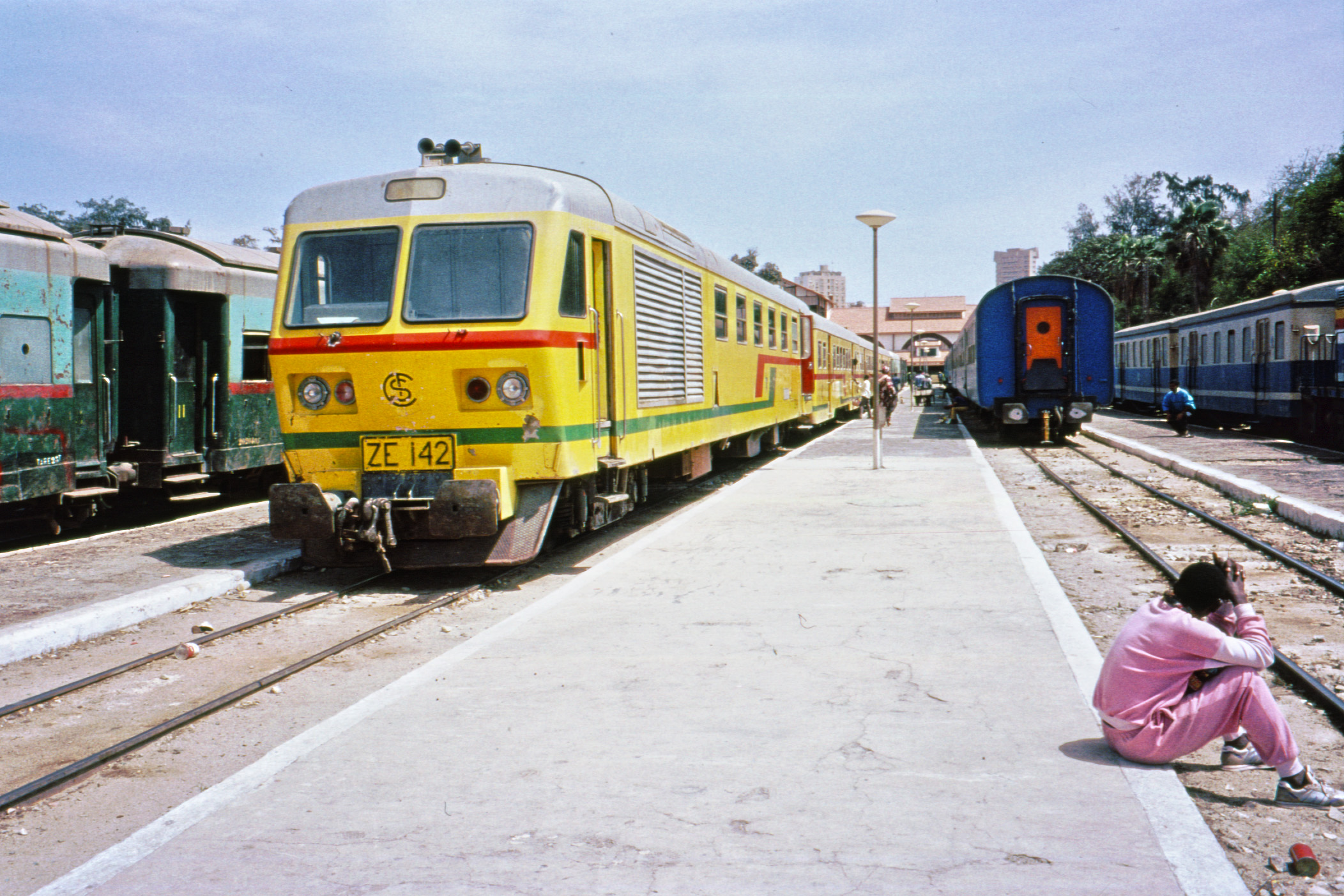 The Dakar-Saint-Louis train at Dakar railway station in 1991. The train seems to be abandoned on this picture by òyó on Panoramio.